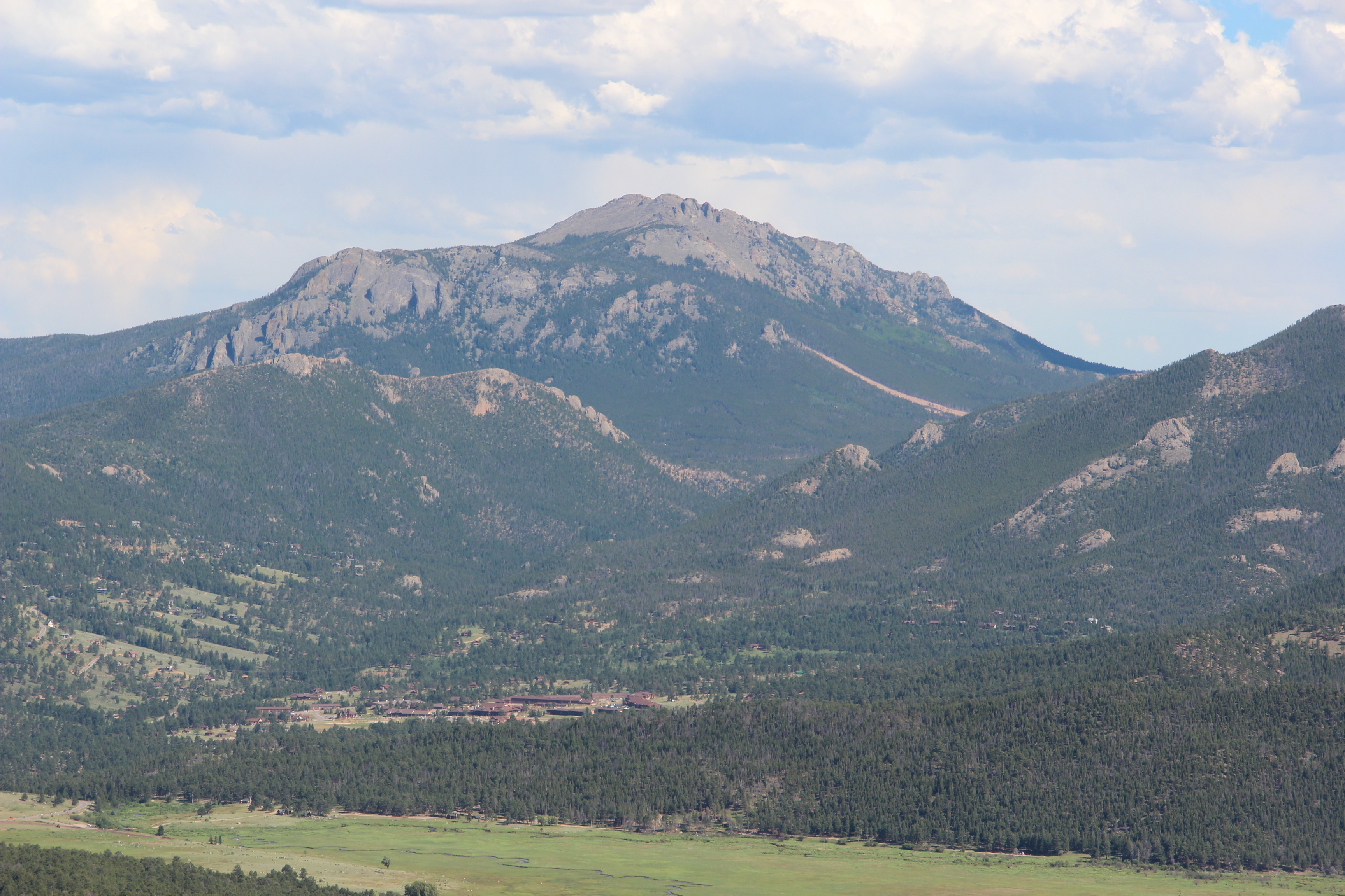 Twin Sisters Peaks viewed from Many Parks Curve Overlook, RMNP